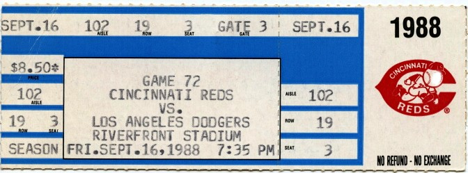 A ticket for a September 16, 1988 Major League Baseball game featuring the Los Angeles Dodgers versus the Cincinnati Reds at Riverfront Staidum. Reds pitcher Tom Browning pitched a perfect game in this match, marking the 12th perfect game in Major League Baseball history.